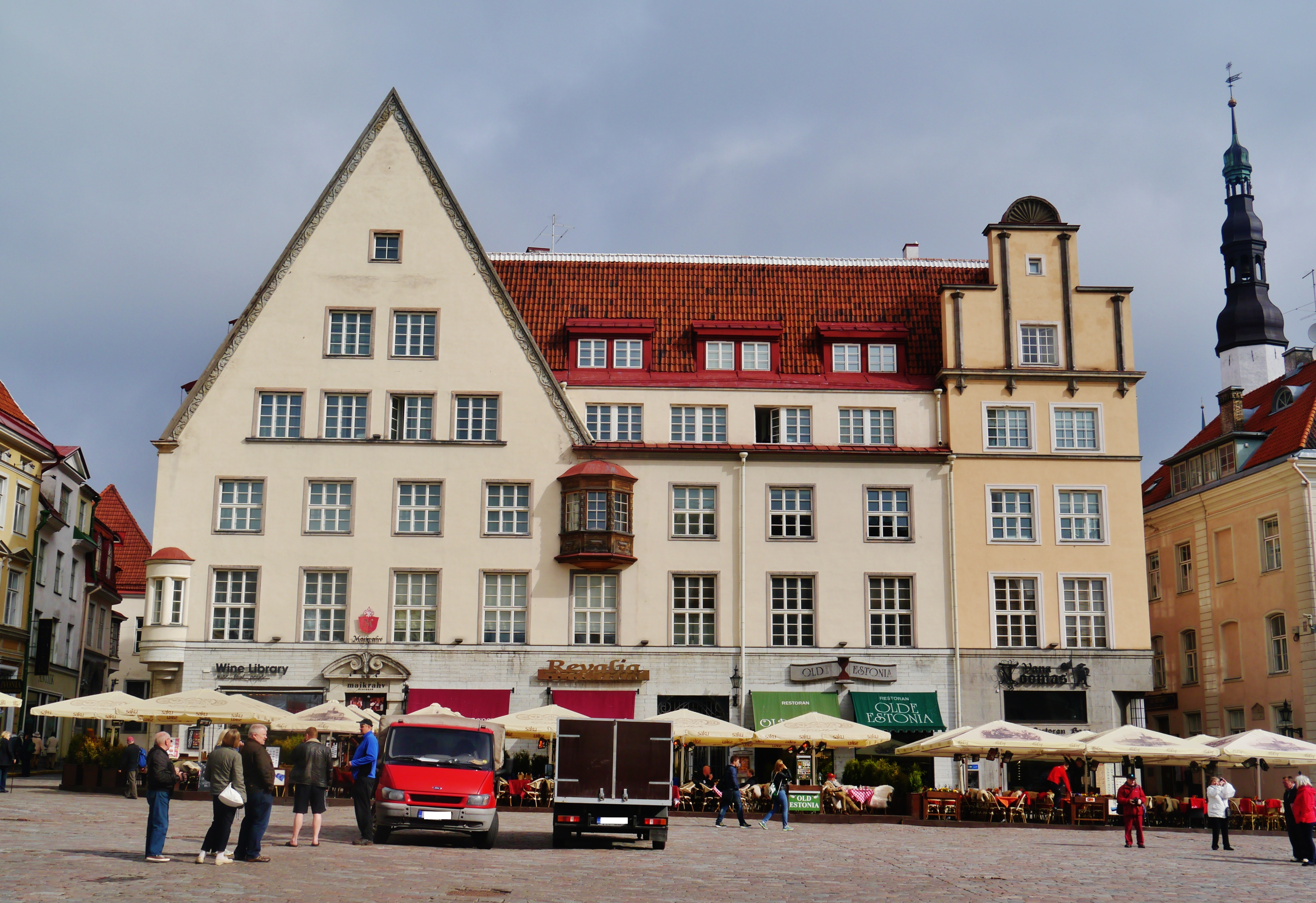 City Hall Square, Tallinn, Estonia